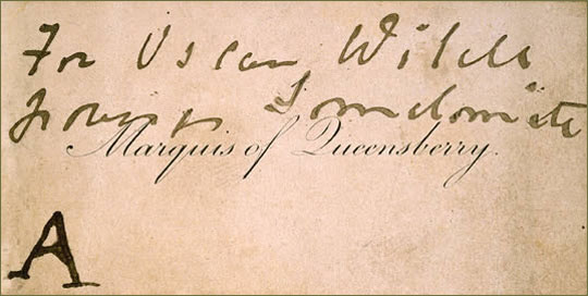 Card of John Douglas, 9th Marquess of Queensberry with "For Oscar Wilde posing as somdomite"[sic] written on it ("posing as" added according to lawyers' advice).